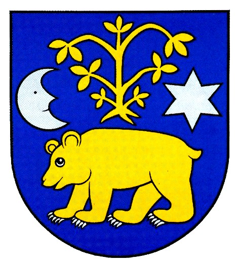 crest of hrochoť